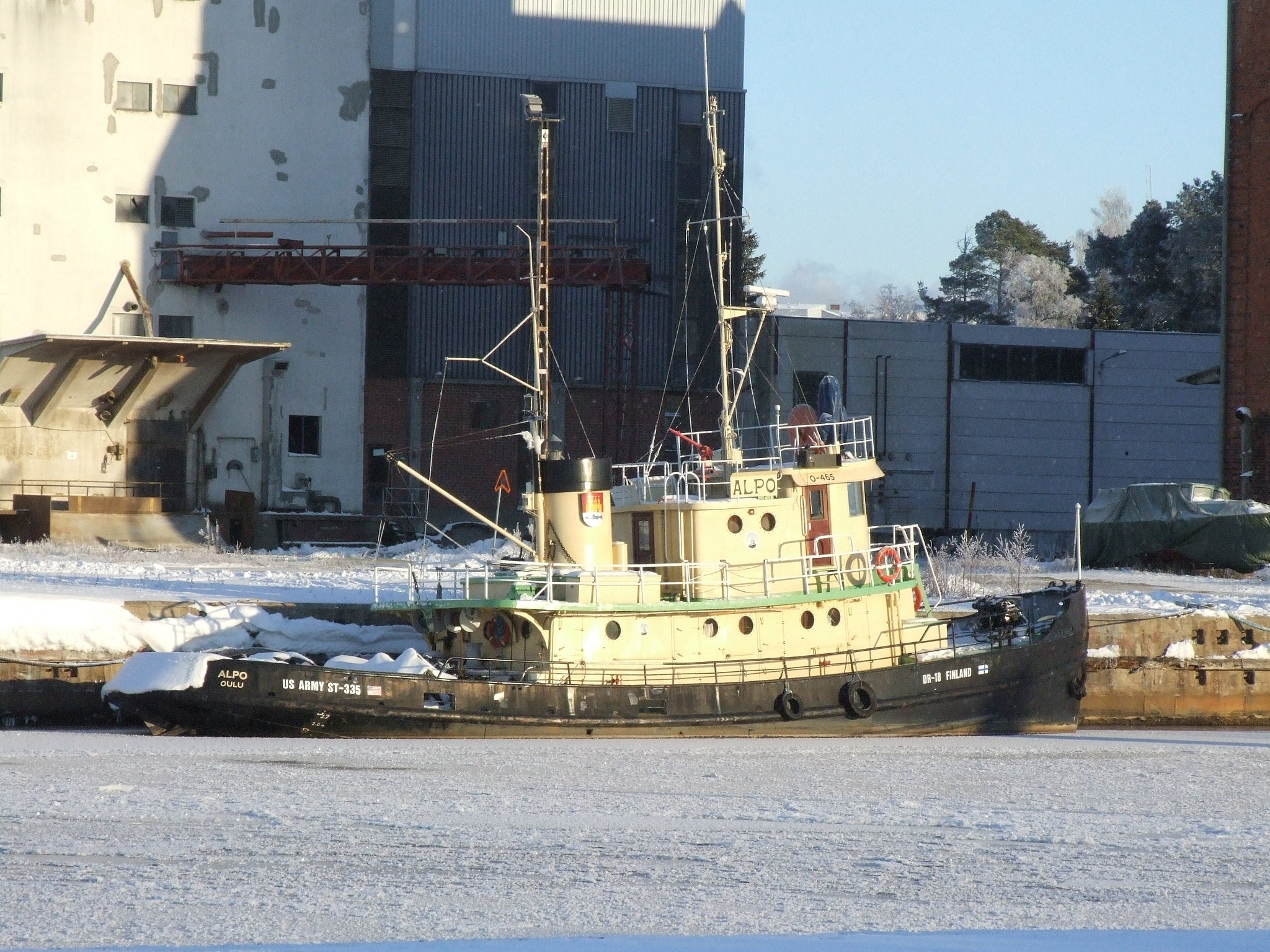 M/S Alpo in Oulu, Finland Ship Type: Tugboat Built in City Island, Bronx, New York City Yard No: Launch date: 1943 Date of completion: 1944 Length: 74 ft Beam: Tons: Speed: History 1944 Named: ST-335 (Small Tug 335) for US Army Flag: United States 1944 Took part in D-Day in Normandy 1946 Sold to Finland govenment as minesweeper Renamed: DR-18 Flag: Finland 1952 Sold as tug Renamed: Alpo